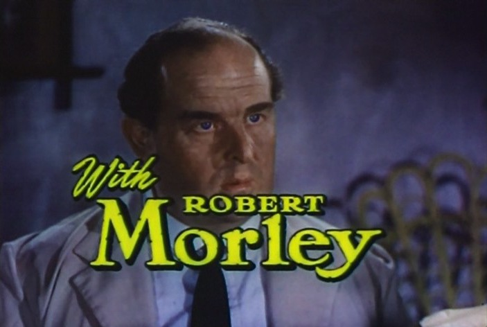 Screenshot of Robert Morley from the trailer for the film The African Queen.